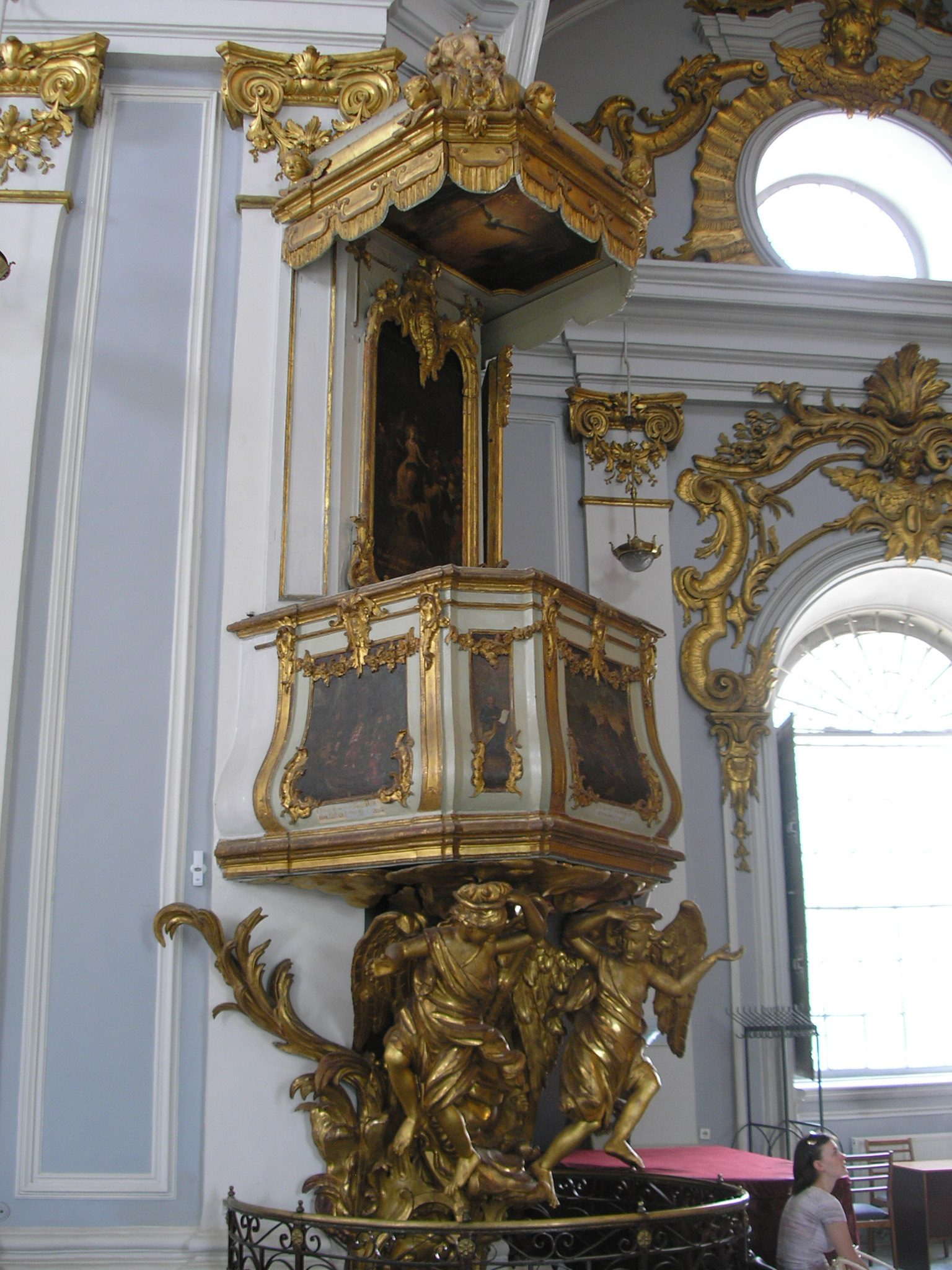 View of the pulpit in the St. Andrew's Church in Kiev, Ukraine.